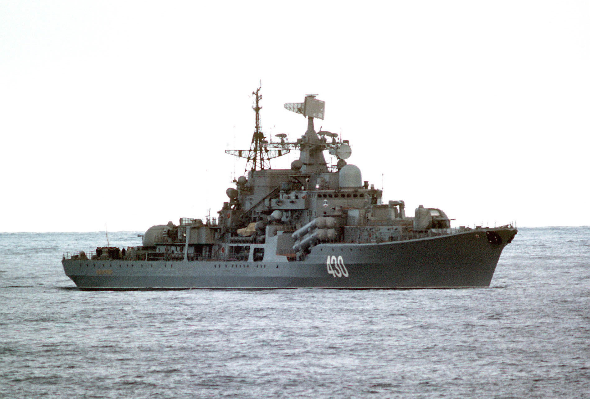 An overhead view of the Soviet Project 956 "Sarych" (Sovremenny class) destroyer Bezuprechnyy (430) underway.